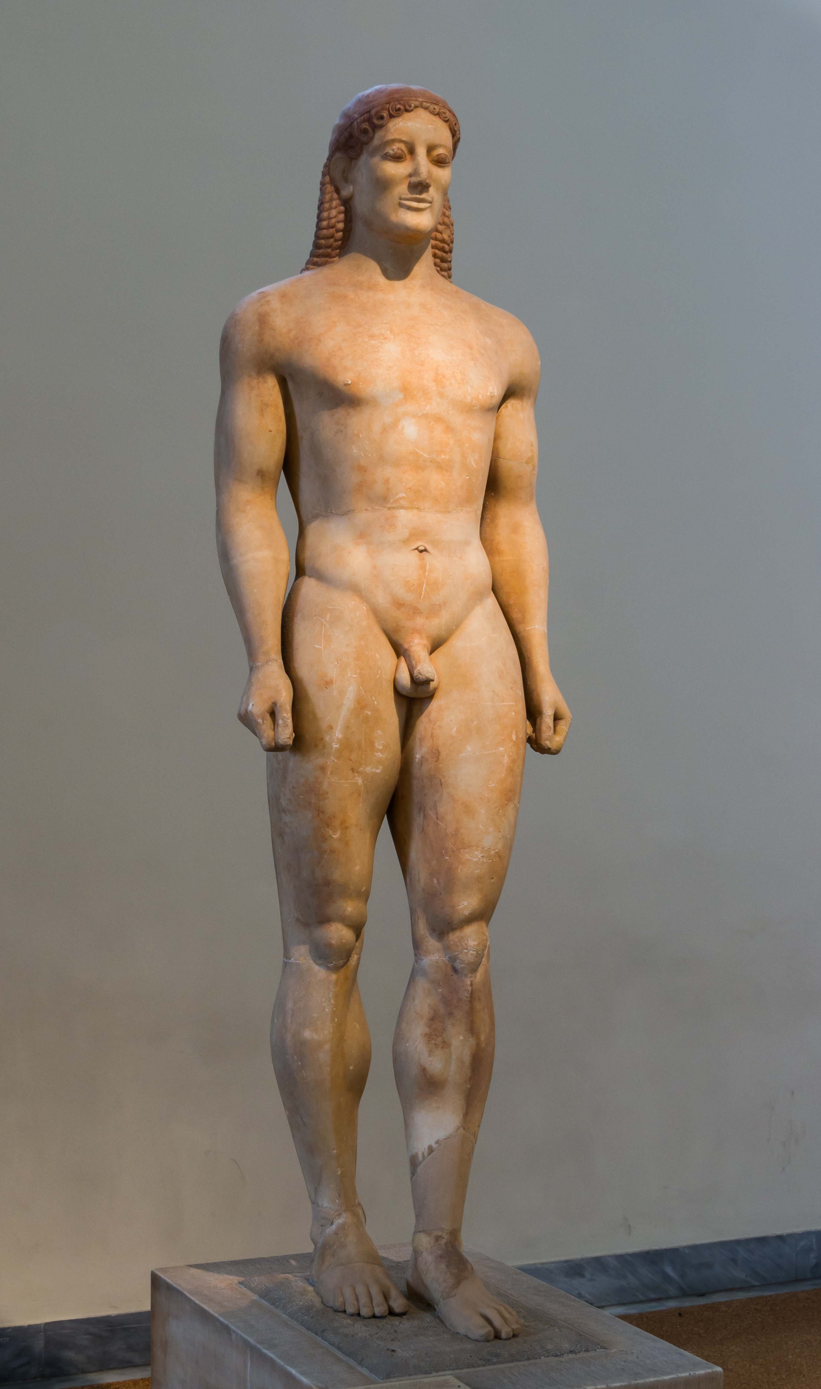 Kroisos Kouros. Parian marble. Found in Anavyssos, Attica. This is a funerary statue, found on the grave of Kroisos, as is indicated by the epigram on the base: Stop, and mourn at the grave of the dead Kroisos, whom the raging Ares destroyed when he fought among the defenders. Ca 530 BCE. N°3851